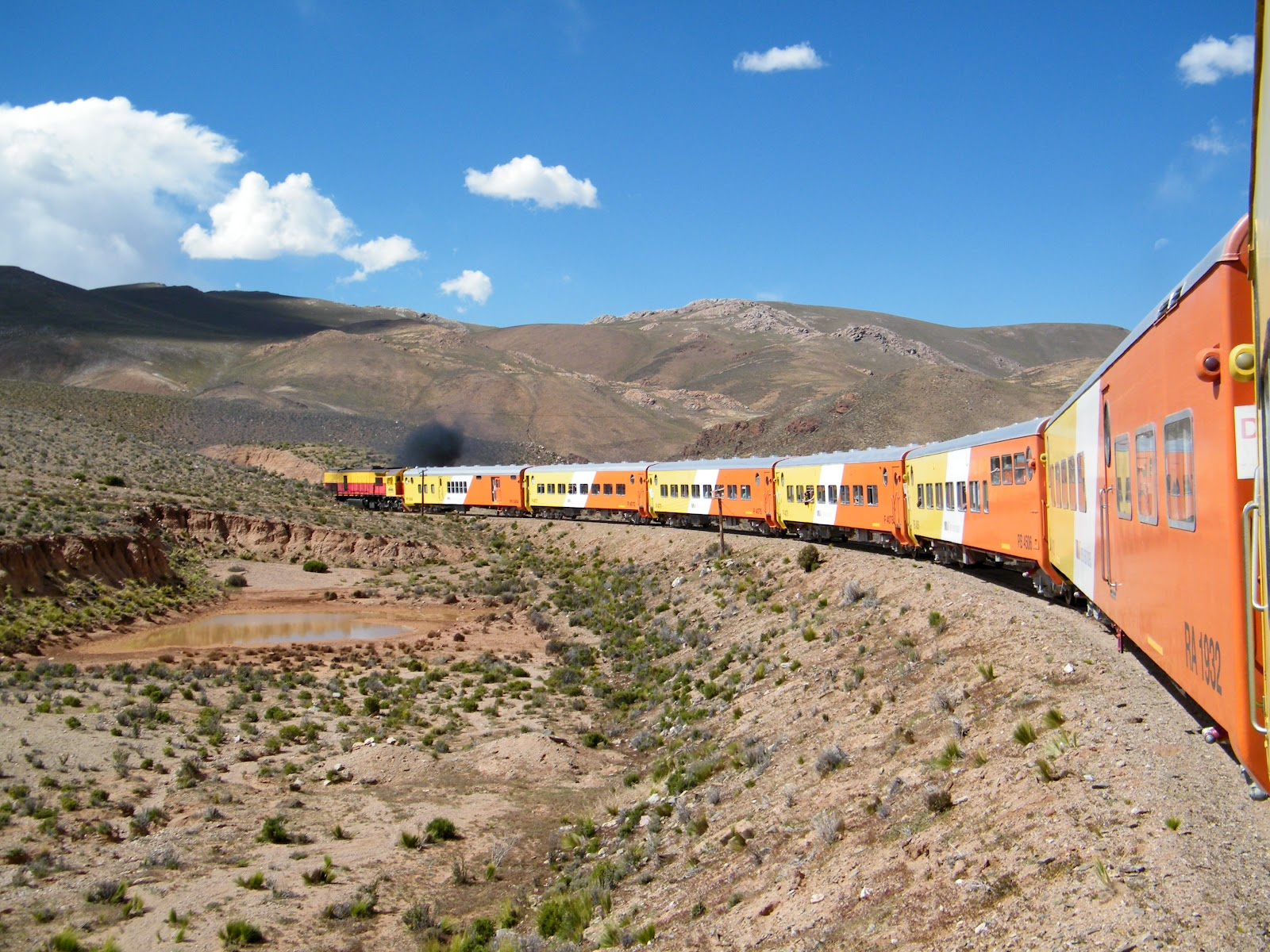 "Tren a las Nubes" (train to the clouds), Salta Province (Argentina).